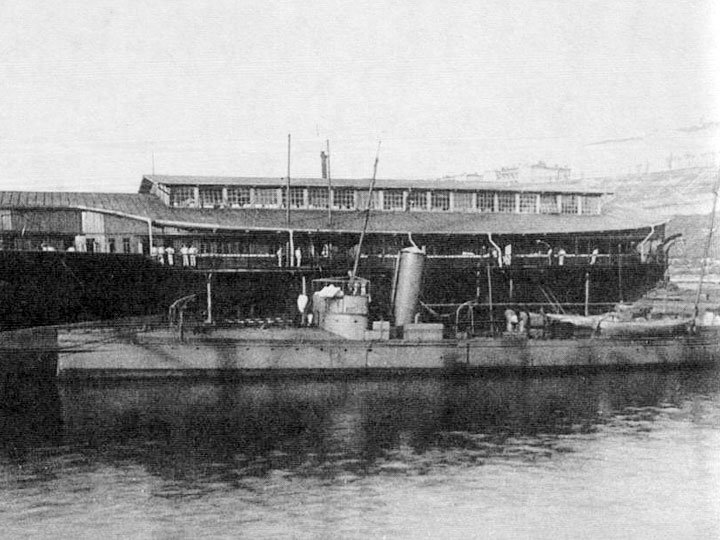 Imperial Russian torpedo cruiser Kazarskiy and blockship Opyt, former imperial yacht Livadiia.